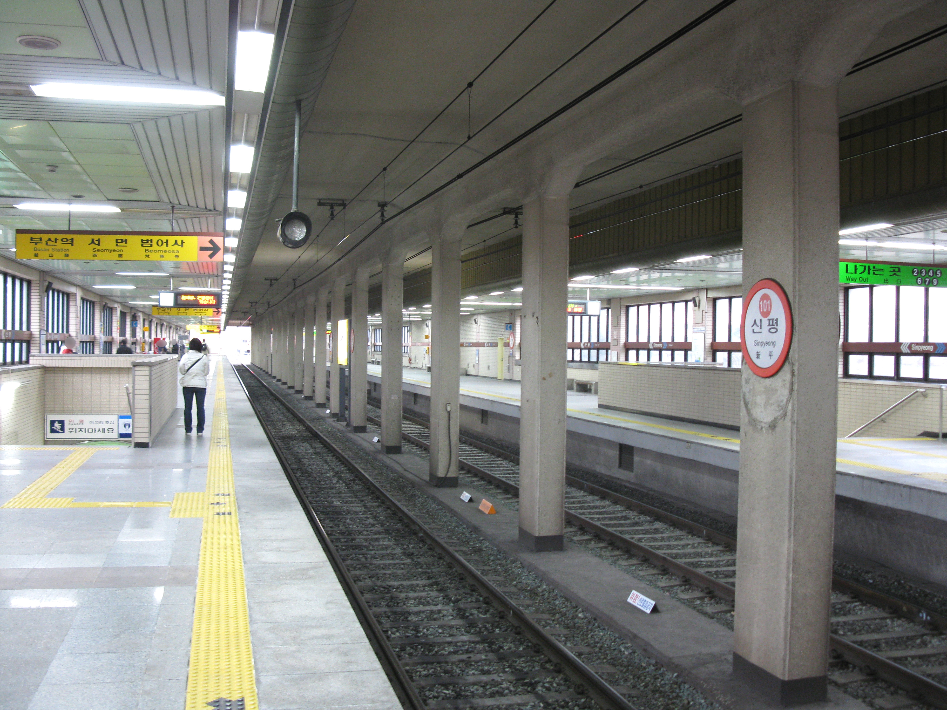 The platforms at Sinpyeong Station on the Busan Subway Line 1 in Saha-gu, Busan, Republic of Korea(South Korea)